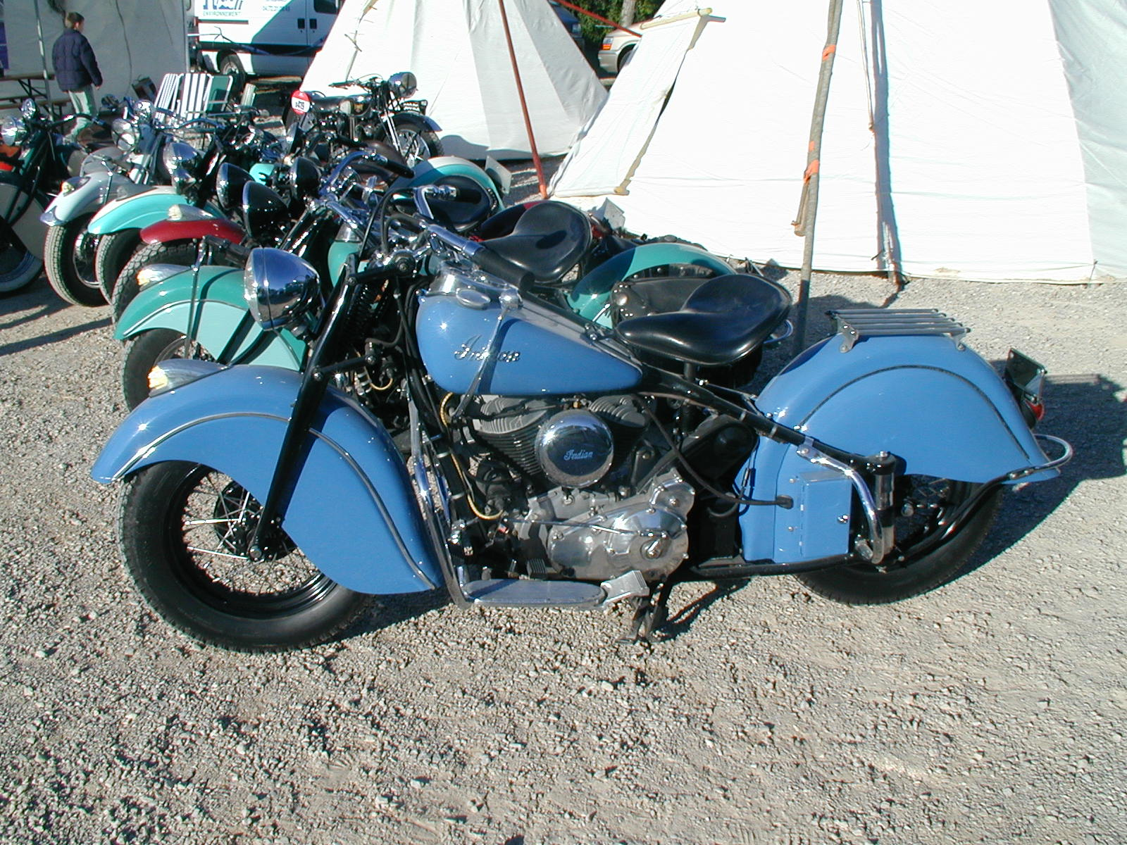 A nice Indian motorcycle Author : Gérard Delafond